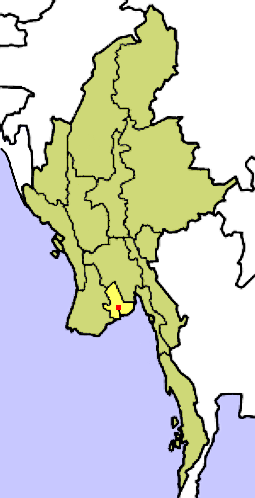 Location of Yangon Division in Myanmar w/ capital.